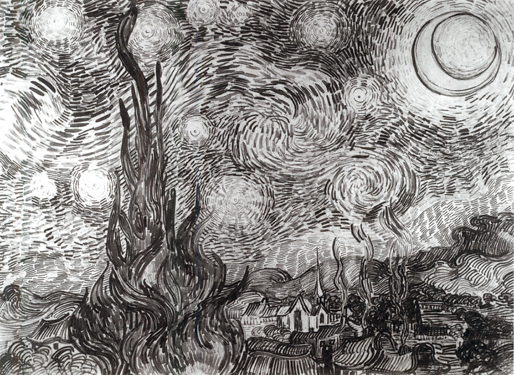 Creator: Gogh, Vincent van, 1853-1890 Title: Cypresses in Starry Night Date: ca. June 20-July 2, 1889 Date destroyed or lost: unknown Nationality: Dutch Medium: pen and ink Object dimensions: 47 x 62.5 cm Former repository: Kunsthalle Bremen Circumstances of destruction or loss: The drawing is one of around 4,000 works from the Kunsthalle Bremen that were transferred to Schloss Kernzow north of Berlin for safekeeping during the war. In 1945 they were discovered by Viktor Baldin, a Moscow museum director who was serving in the Russian army. Baldin took several of the drawings back to Moscow and they eventually found their way into the collection of the Hermitage. It is unclear whether the drawing remains in the Hermitage or is one of the 1,500 works that remain missing.